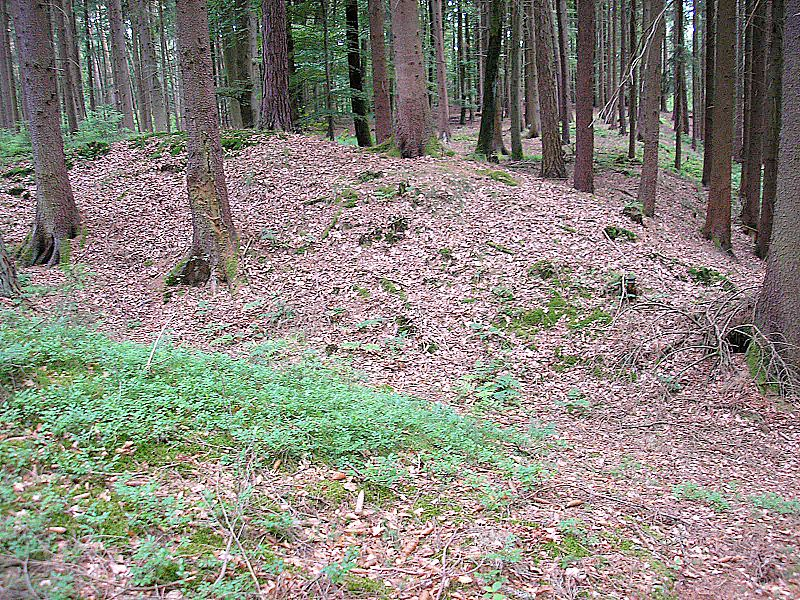 Early Middle Ages hill fort "Schwedenschanze" near Nisselsbach (Aichach, Landkreis Aichach-Friedberg, Bavaria, Germany). The central fort, looking west.